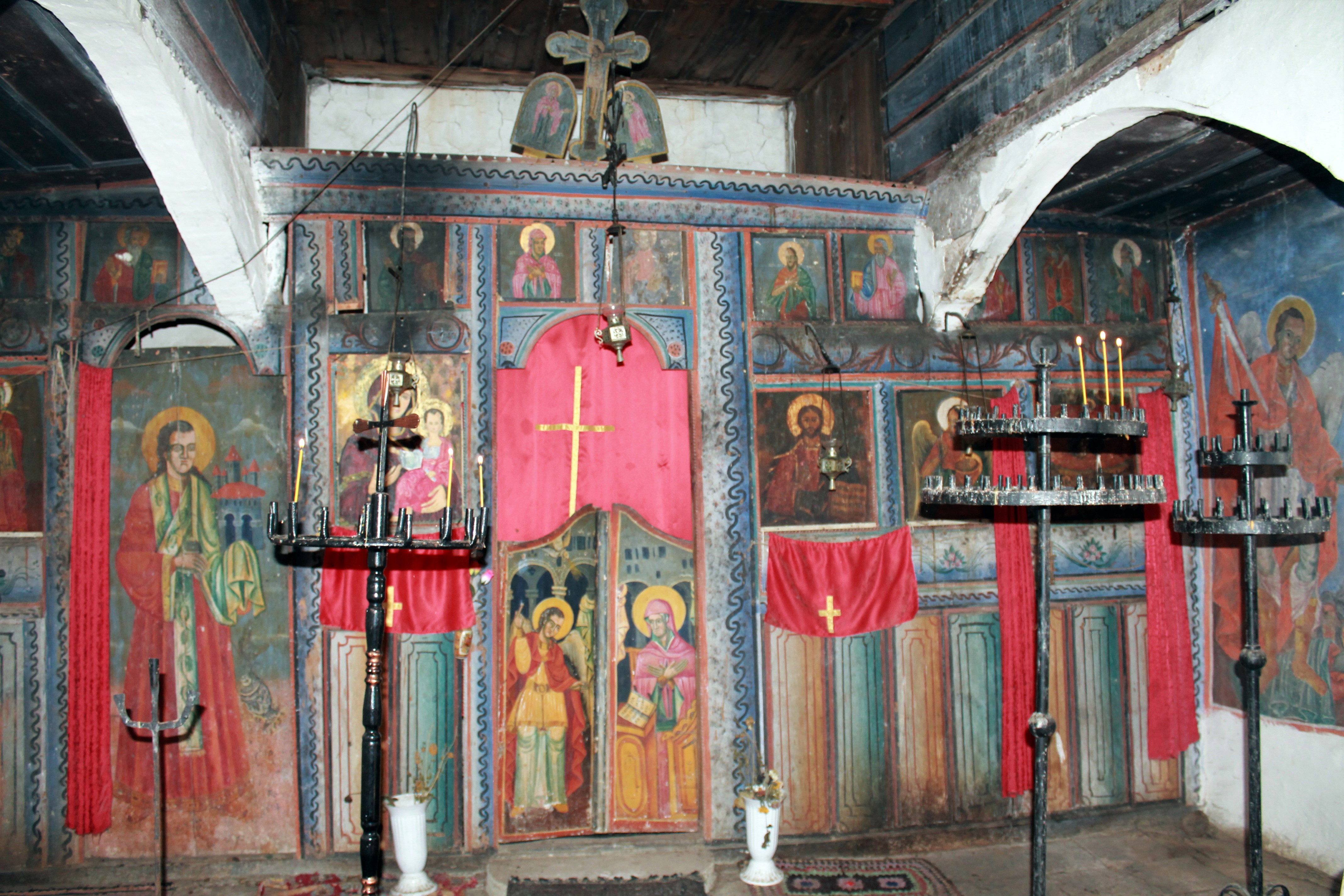 Interior of the church "St. Elias" near the village Sugarevo, Bulgaria